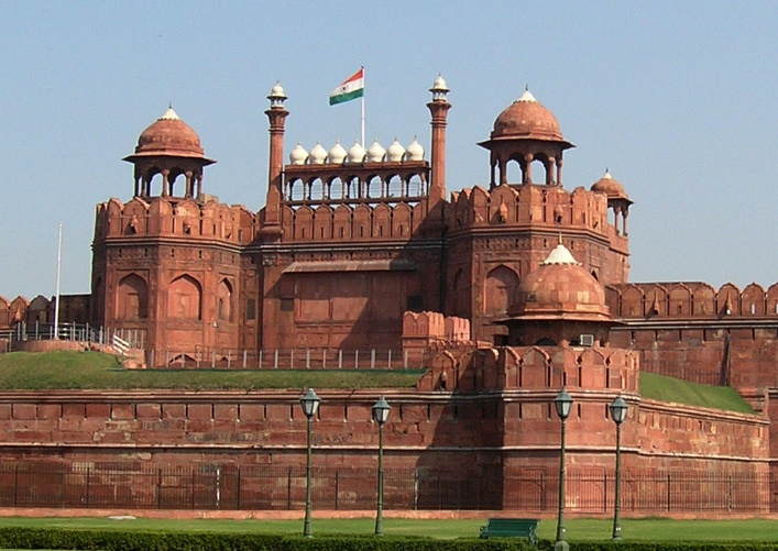 Red Fort, cropped